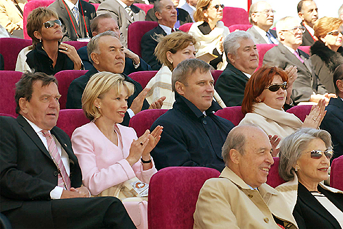 STRELNA. A concert during the opening of the Constantine Palace. In the first row - Greek Prime Minister Konstantinos Simitis and his wife. In the second row, left to right - German Chancellor Gerhard Schroeder and his wife, Doris Schroeder-Koepf, Russian Prime Minister Mikhail Kasyanov, and his wife, Irina.